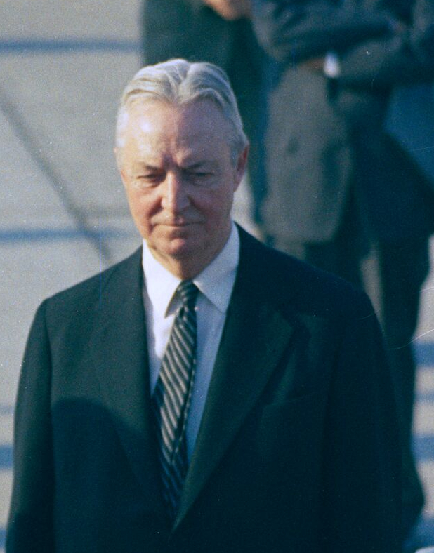 ST-C144-42-62. President John F. Kennedy Speaks at Arrival Ceremonies for Prime Minister of Great Britain, Harold Macmillan